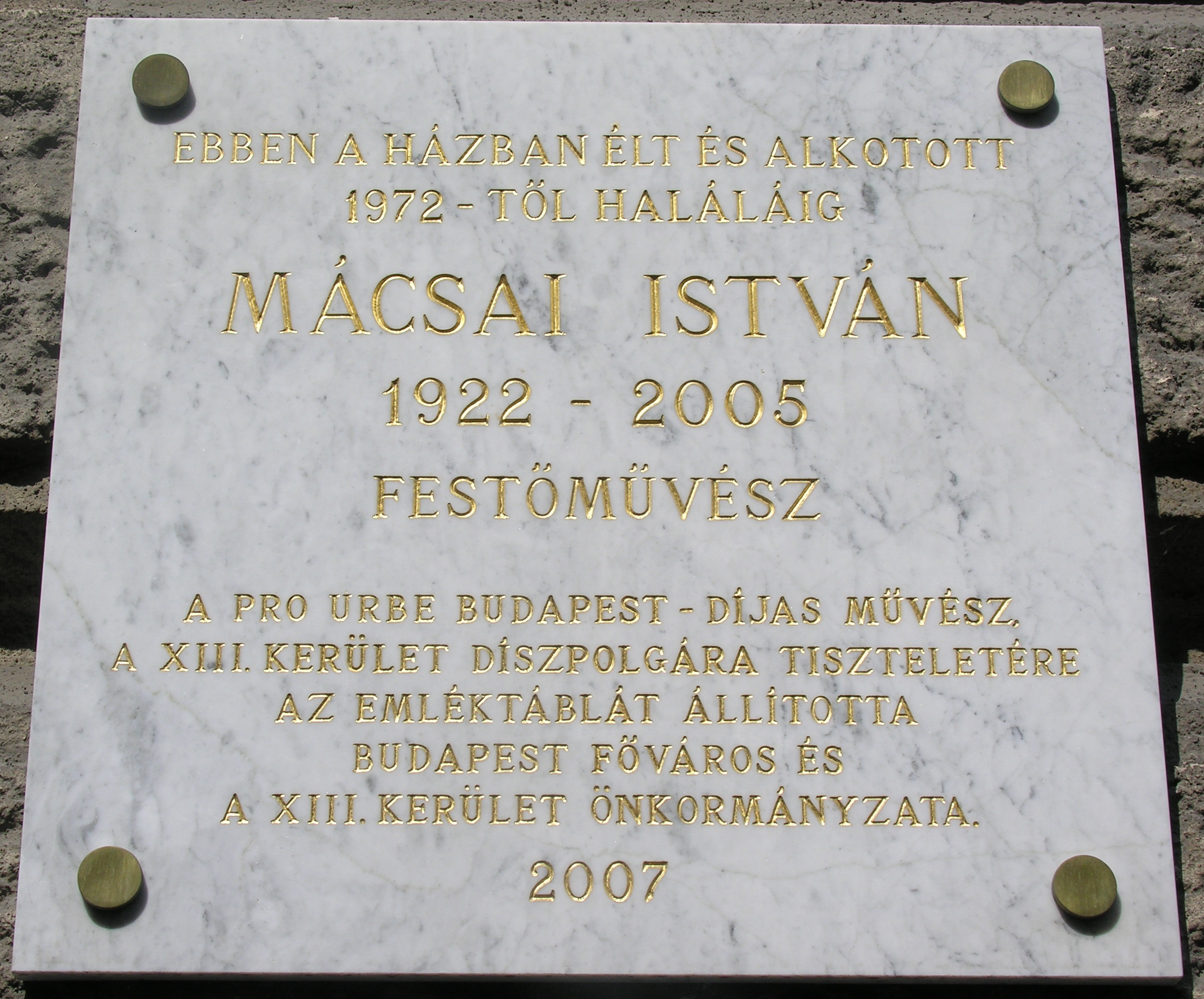 Commemorative plaque of István Mácsai in Budapest District XIII, Pannónia Street No 36